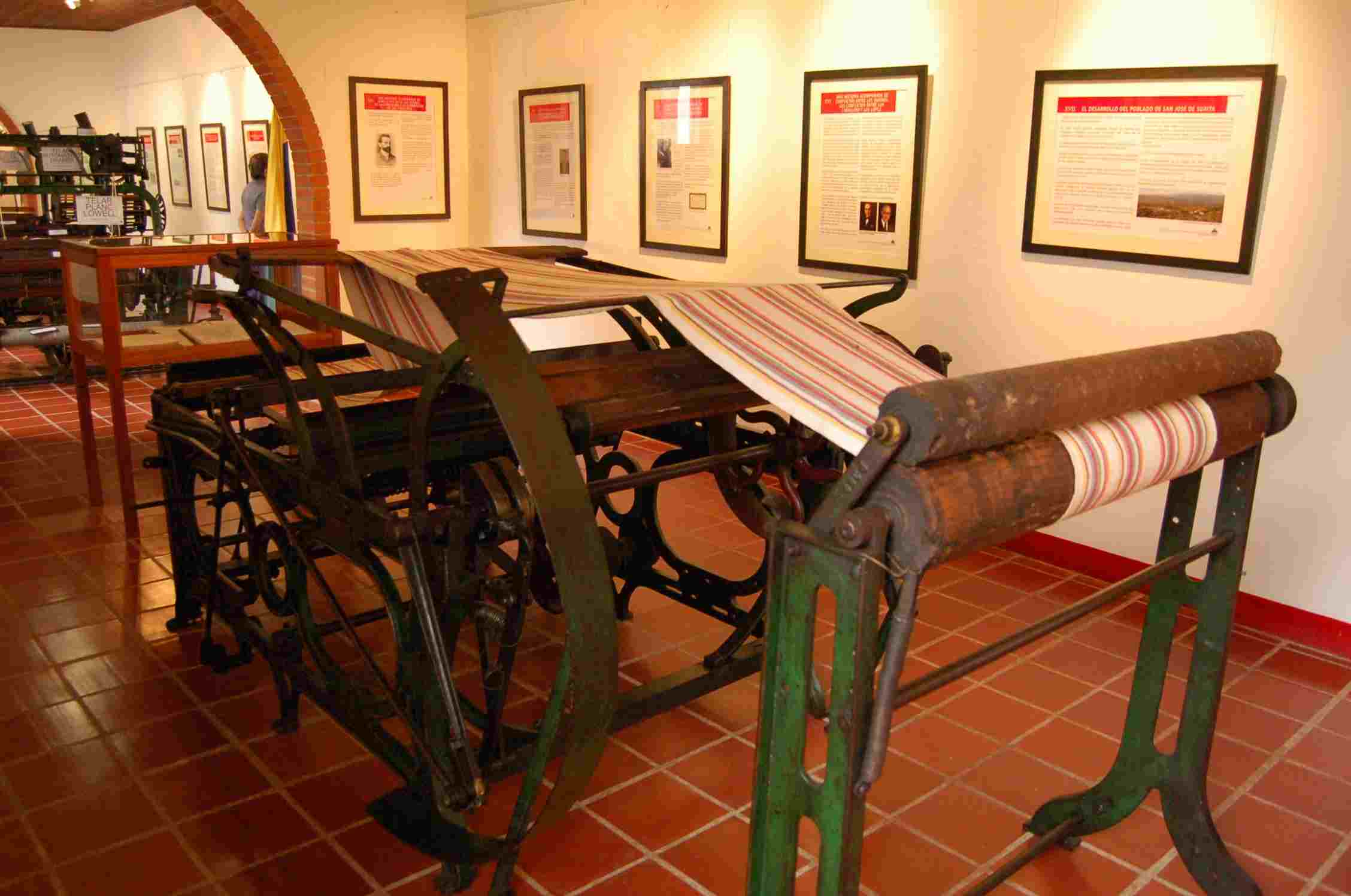 San Jose de Suaita Cotton Mill Museum — in San José de Suaita, Colombia.